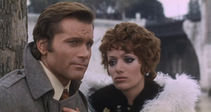 Italian actors Franco Nero and Delia Boccardo in a scene of the film